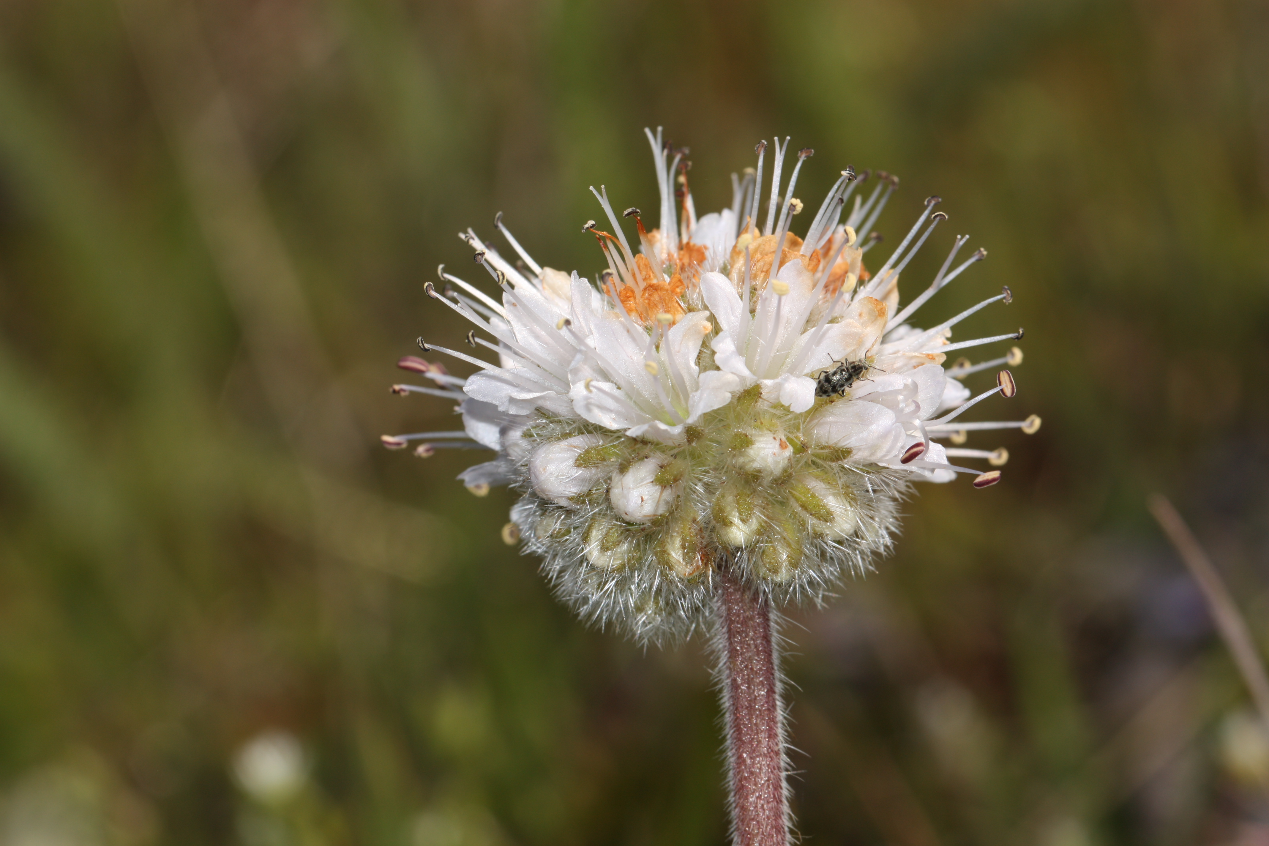 Ballhead Waterleaf, Wool Breeches Viewpoint location: McCall Point Trail, Tom McCall Preserve Viewpoint elevation: 514 meter (1687 ft) Location source: Garmin GPSmap 60CSx Location Datum: WGS84